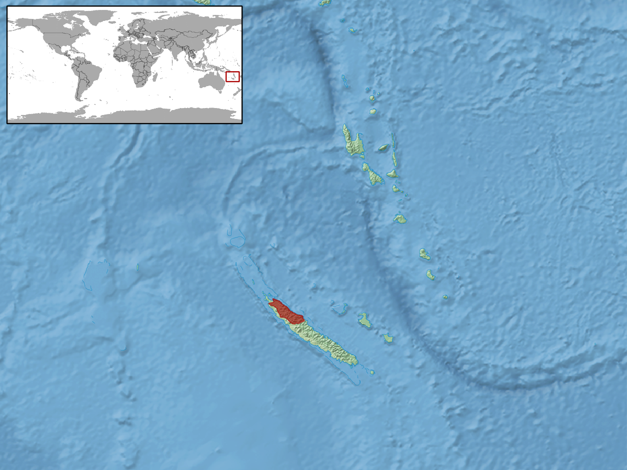 geographic distribution of Caledoniscincus aquilonius